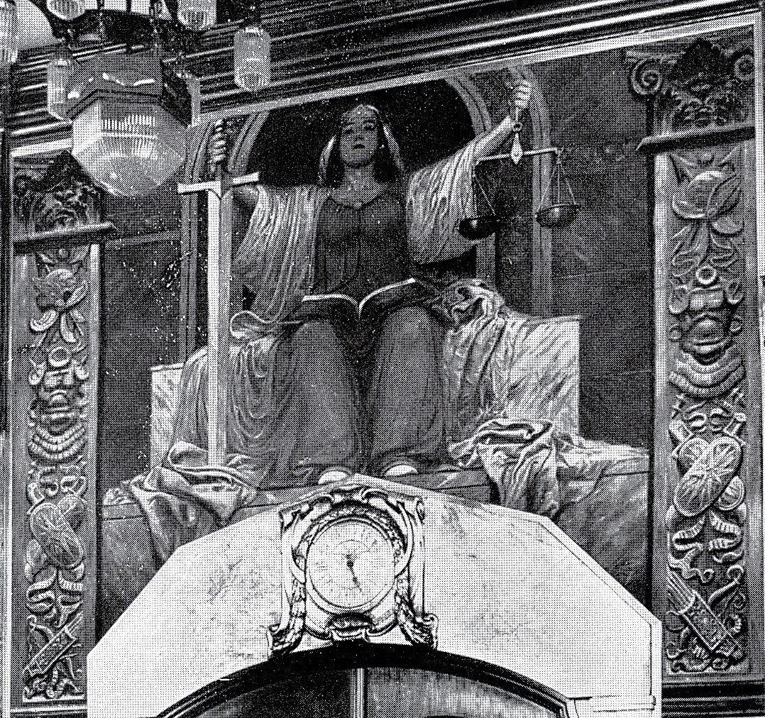 Prof. Willy Spatz (1861 - 1931), Wandgemälde im Gebäude des Düsseldorfer Oberlandesgerichts, Die Gerechtigkeit.jpg